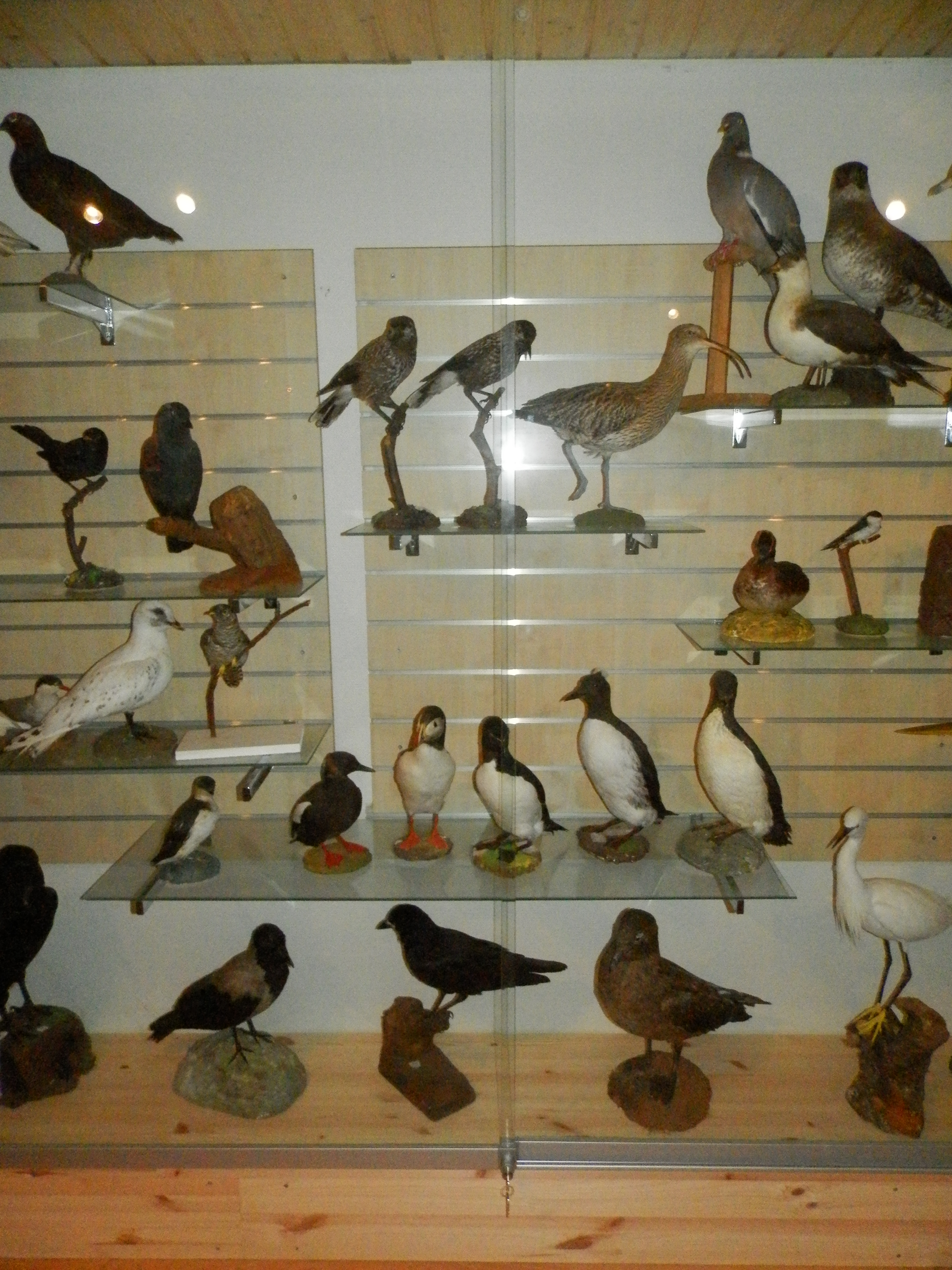 Sunnbiar Fugla og Bygdasavn is the Bird and Village Museum of Sumba, Faroe Islands. Sumba is the southernmost village in the Faroe Islands, located on Suðuroy. The birds used to belong to Aksal Poulsen from Sumba, who has collected the birds and had them stuffed. Most of the birds are stuffed by Jens-Kjeld Jensen from Nólsoy. Most of them are found dead in the Faroe Islands but just a few are found in other countries. There are also a collection of butterflies from the Faroe Islands in the museum. There are also historical items from the village in the museum, which opened in 2012.